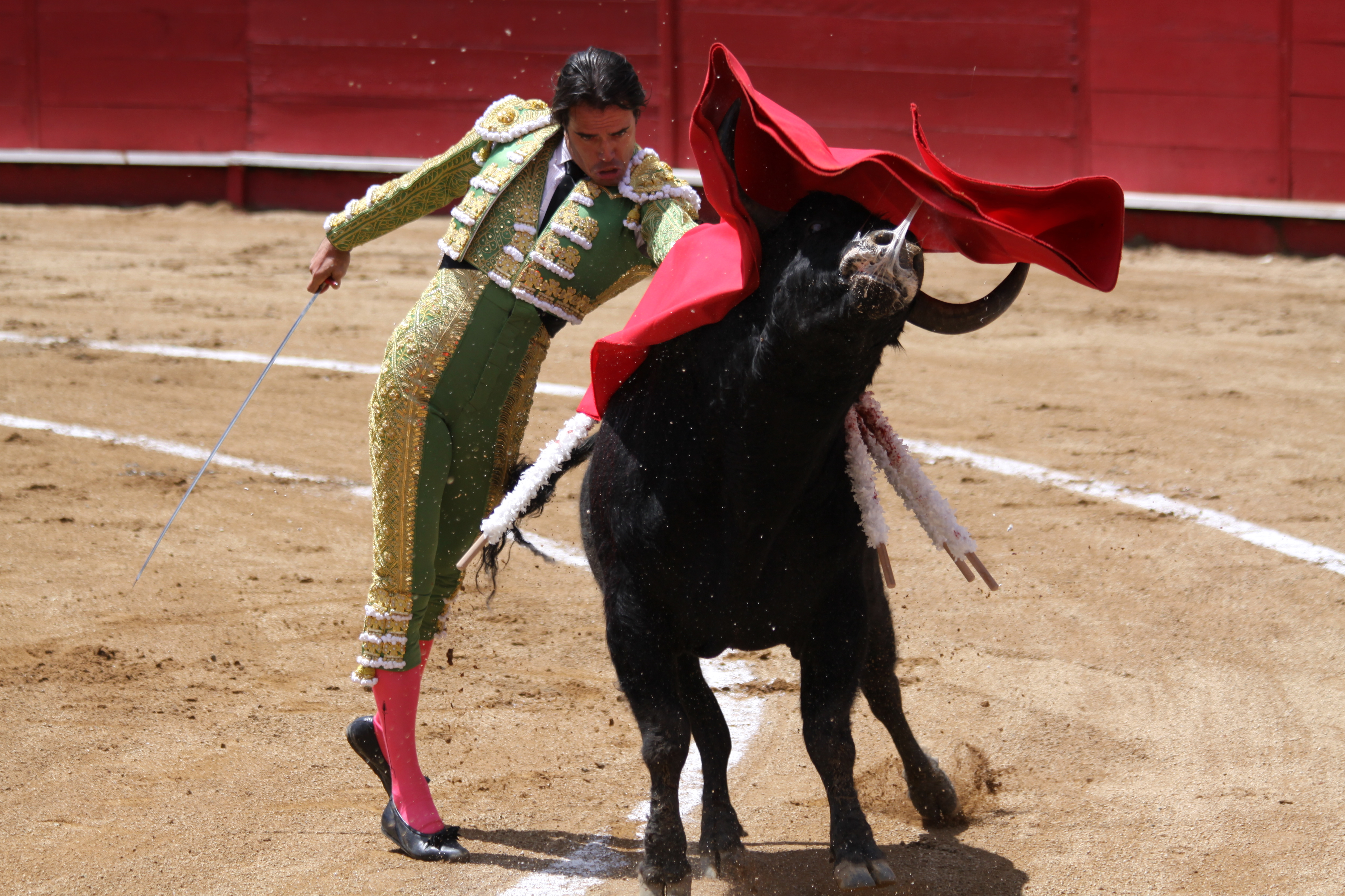 José Ignacio Uceda Leal, Spanish bullfighter.